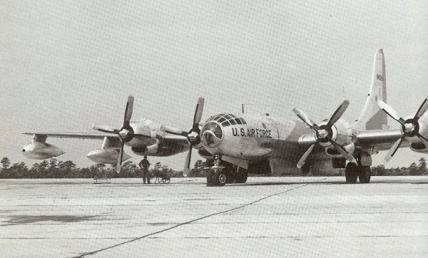 SAC KB-50 Superfortress tanker arriving in Germany